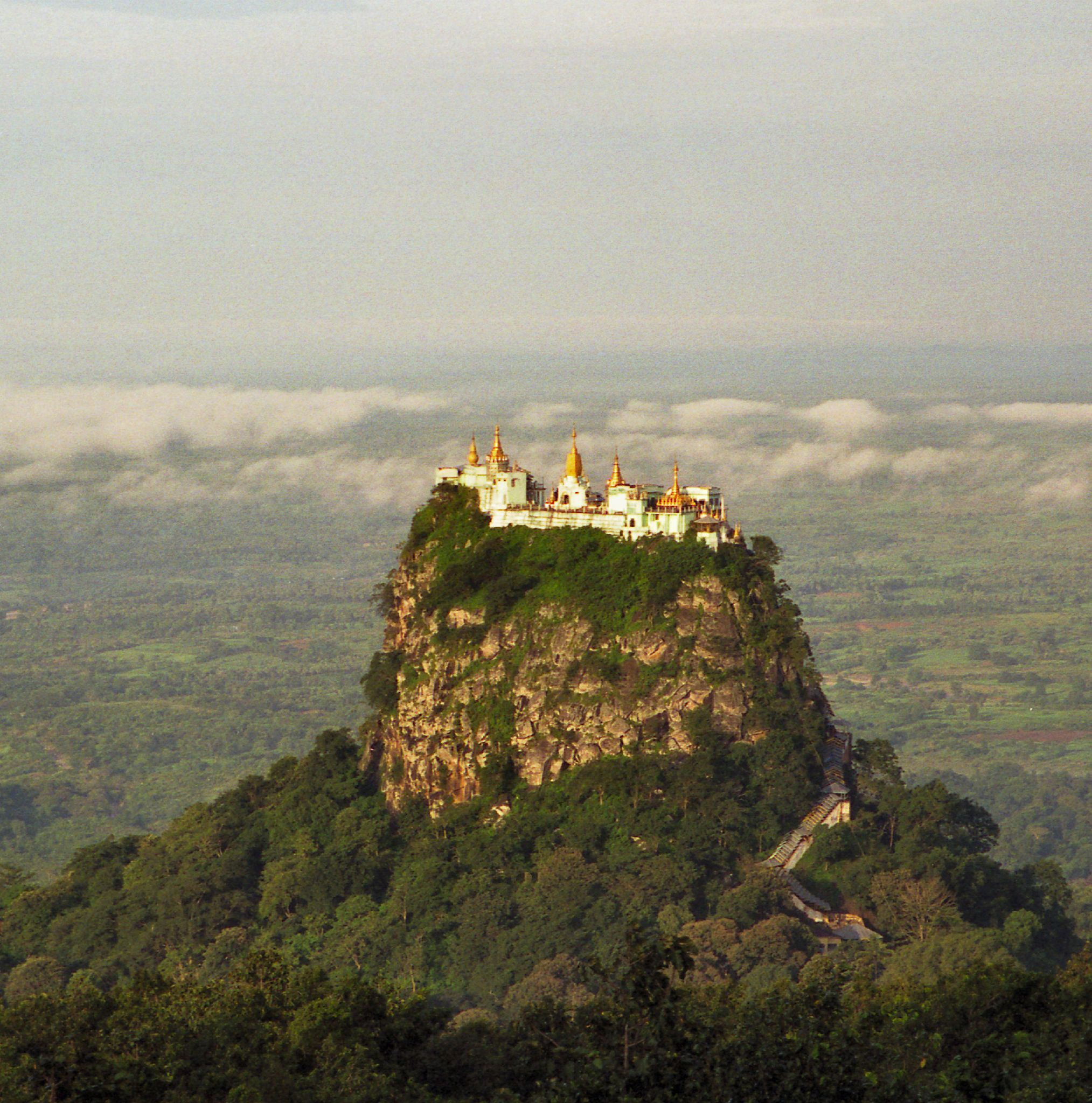 Taungkalat temple, the shrine at the top of Mt. Taung Kalat.